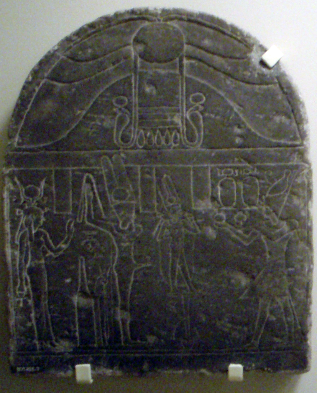 Stela of the pharaoh making an offering to the gods of the city of Akhmim, from the Ancient Egyptian wing of the Royal Ontario Museum.